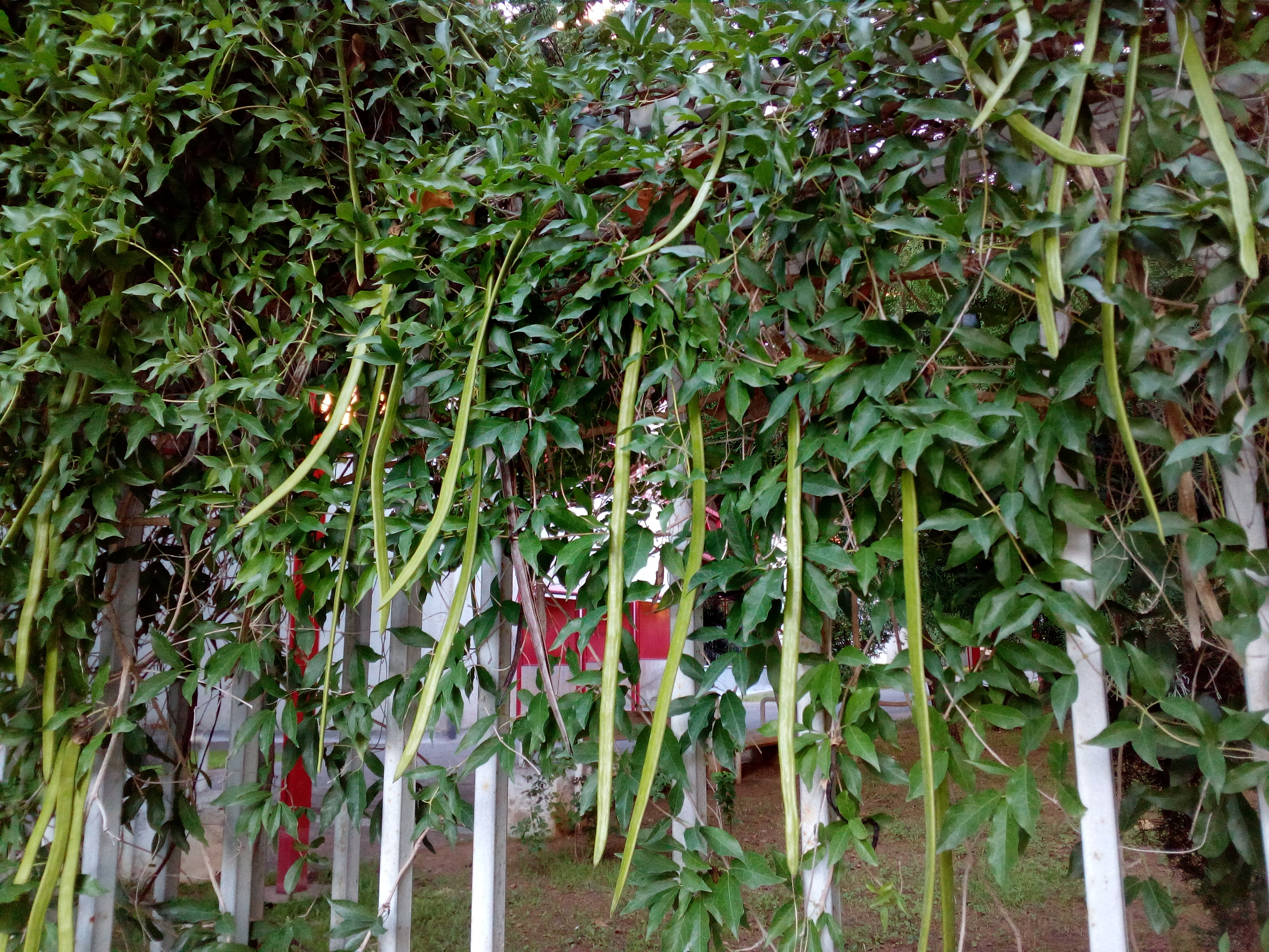 Bignonia Unguis Cati fruiτs